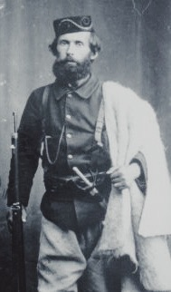 Mihal Grameno, revolutionary and writer